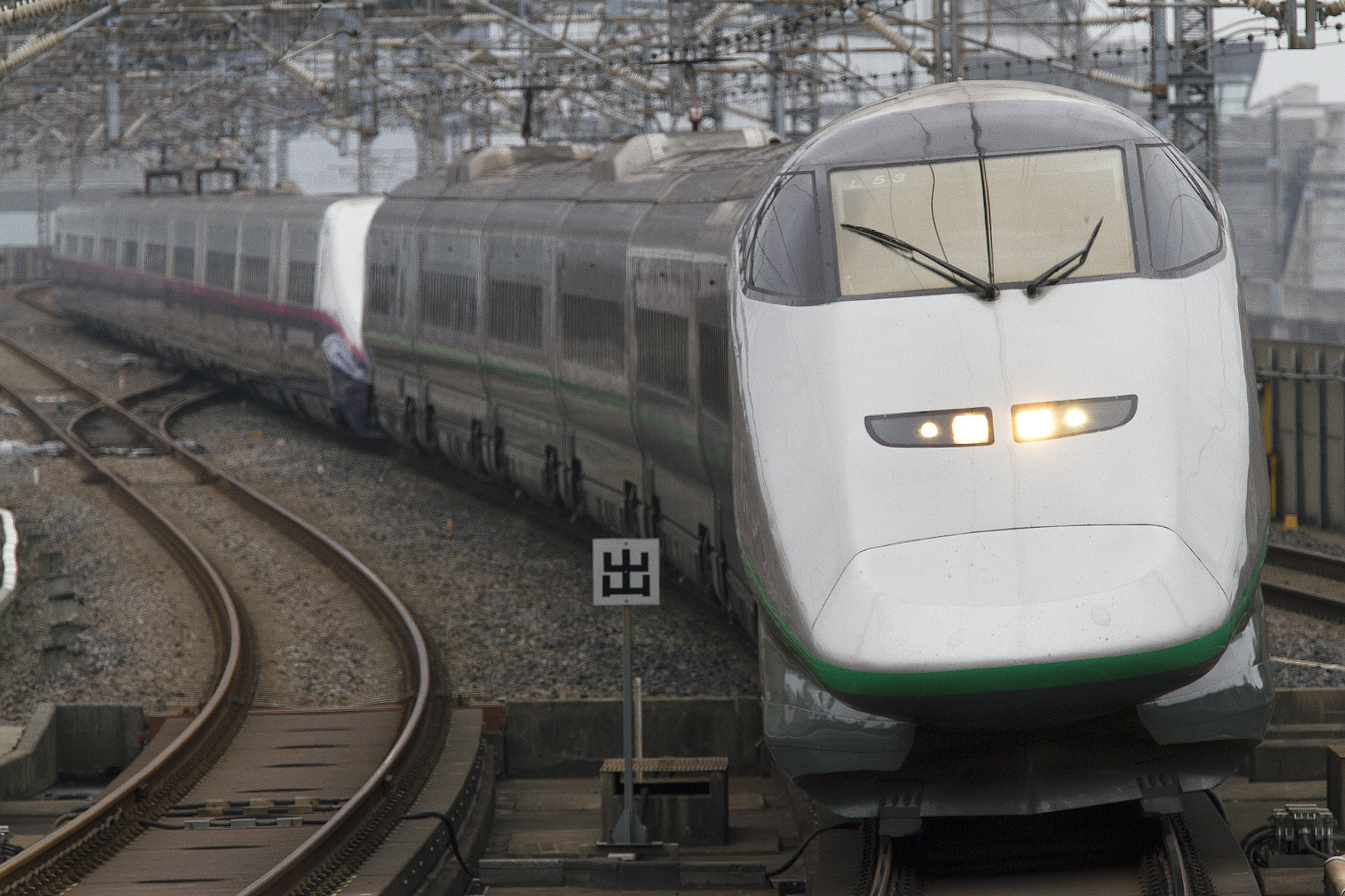 Shinkansen series E3 "Tsubasa" and Shinkansen series E2 ("Yamabiko" ) at Omiya.